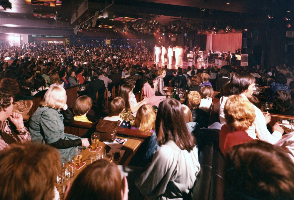 Inside Batley Variety Club